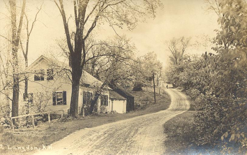 Street Scene, Langdon, New Hampshire; from a postmarked 1909 postcard.